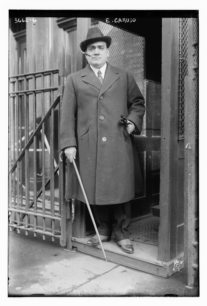 Picture of Enrico Caruso circa 1910~1915